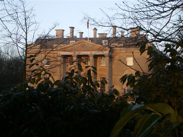 Taken by my Father-inlaw during Christmas in our home in Bletchingdon 2005.